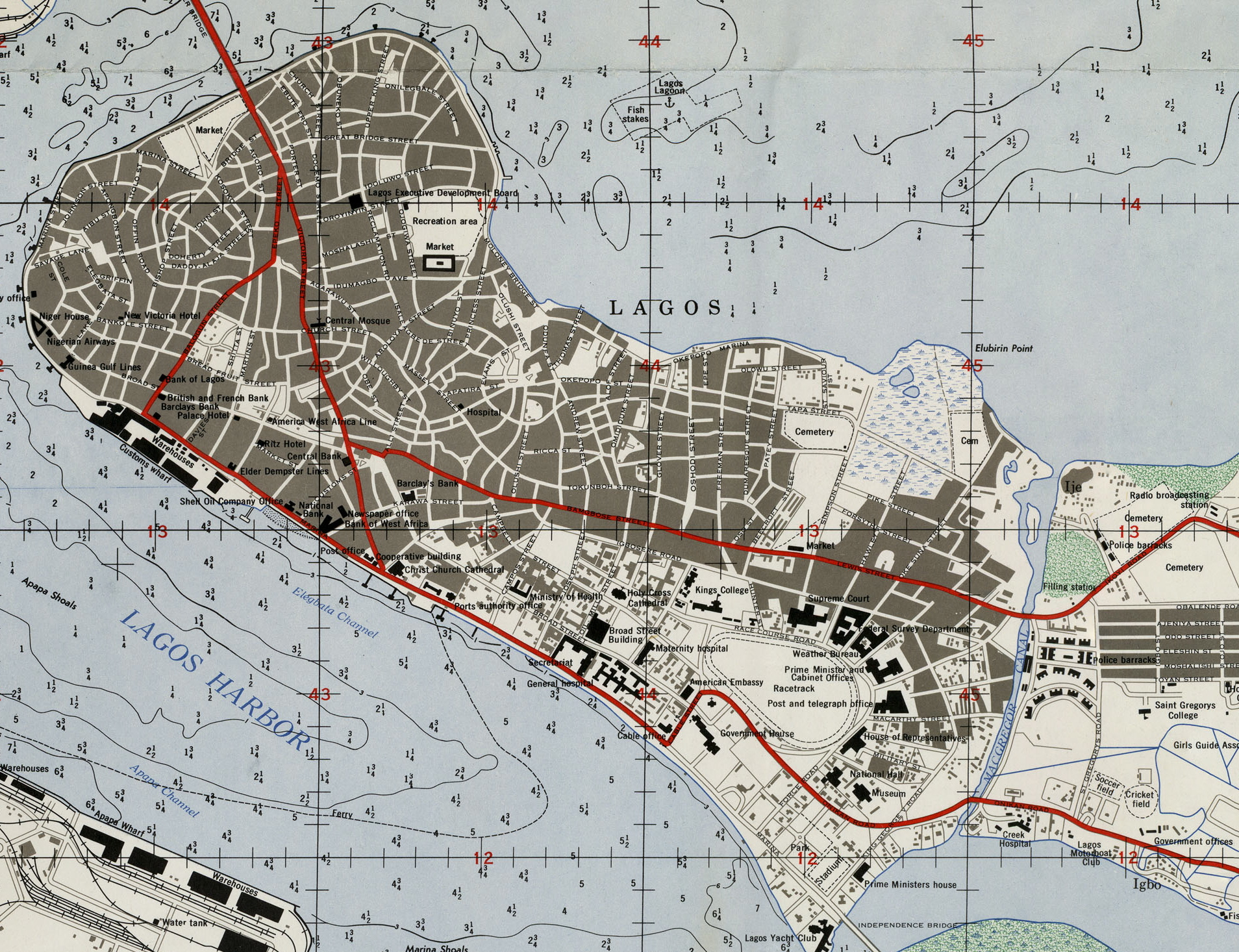 Detail of Map of Lagos, Nigeria, 1962